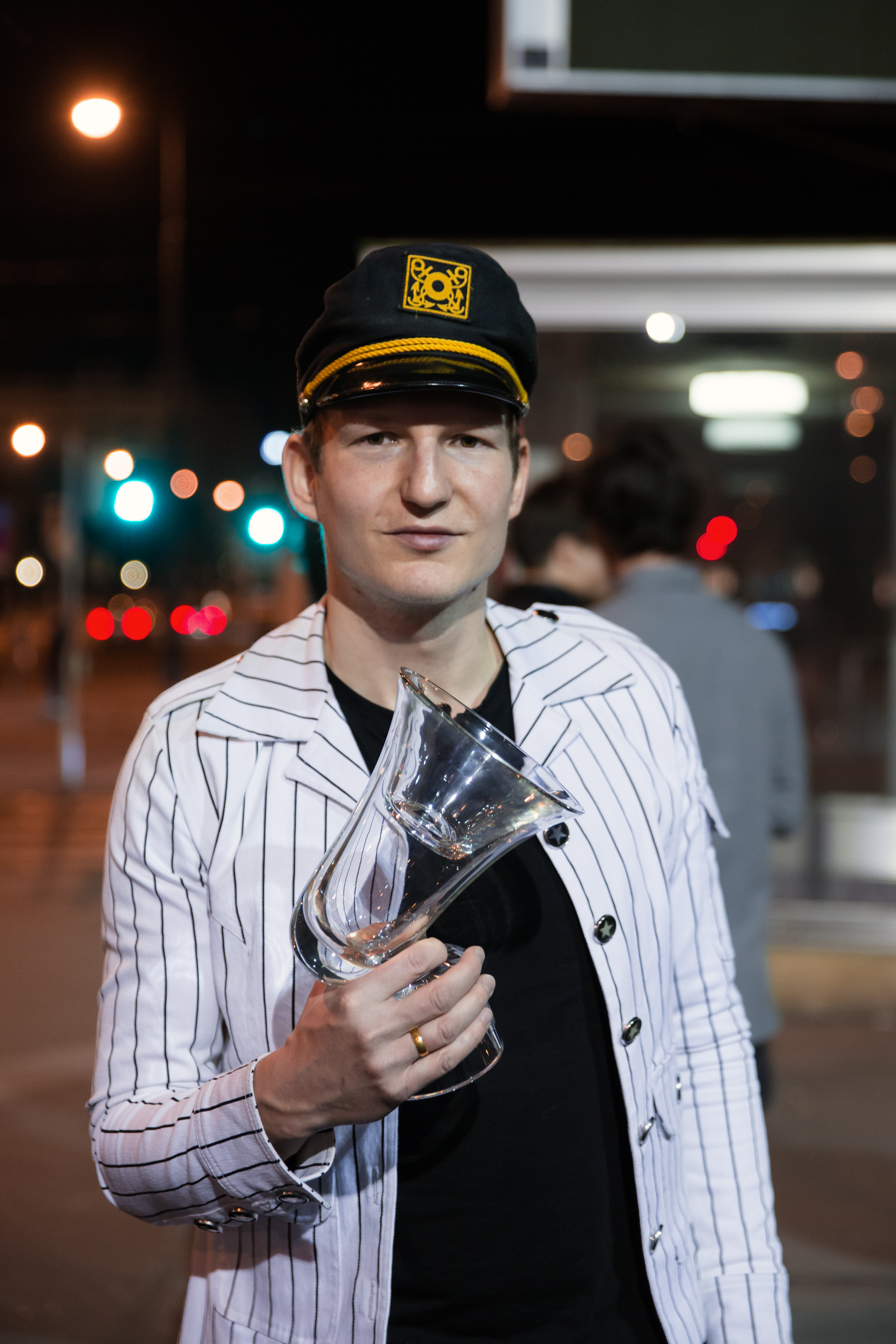 pauT (Der Nino aus Wien) at the Amadeus Austrian Music Award 2015 at Volkstheater in Vienna